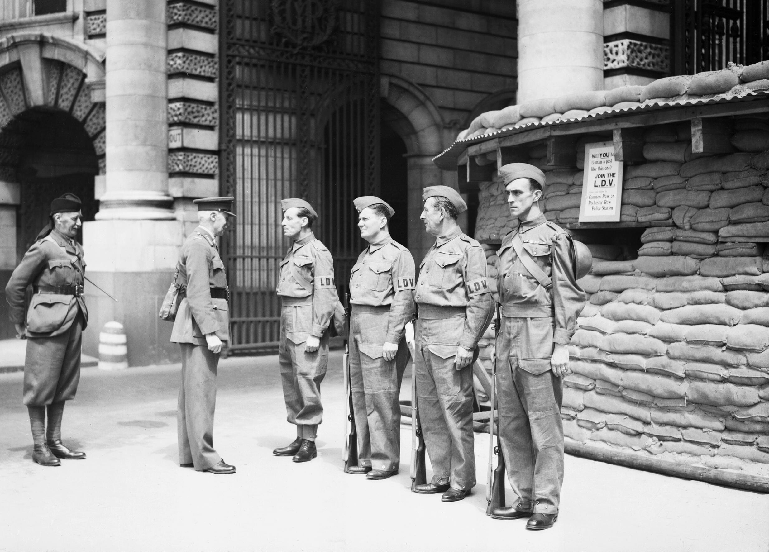 Local Defence Volunteers (LDV) being inspected by senior officers at their post in Whitehall, London, 21 June 1940. Local Defence Volunteers: The first manned Local Defence Volunteers (LDV) post in central London. The men pictured are being inspected by General Nation and Major Hughman.